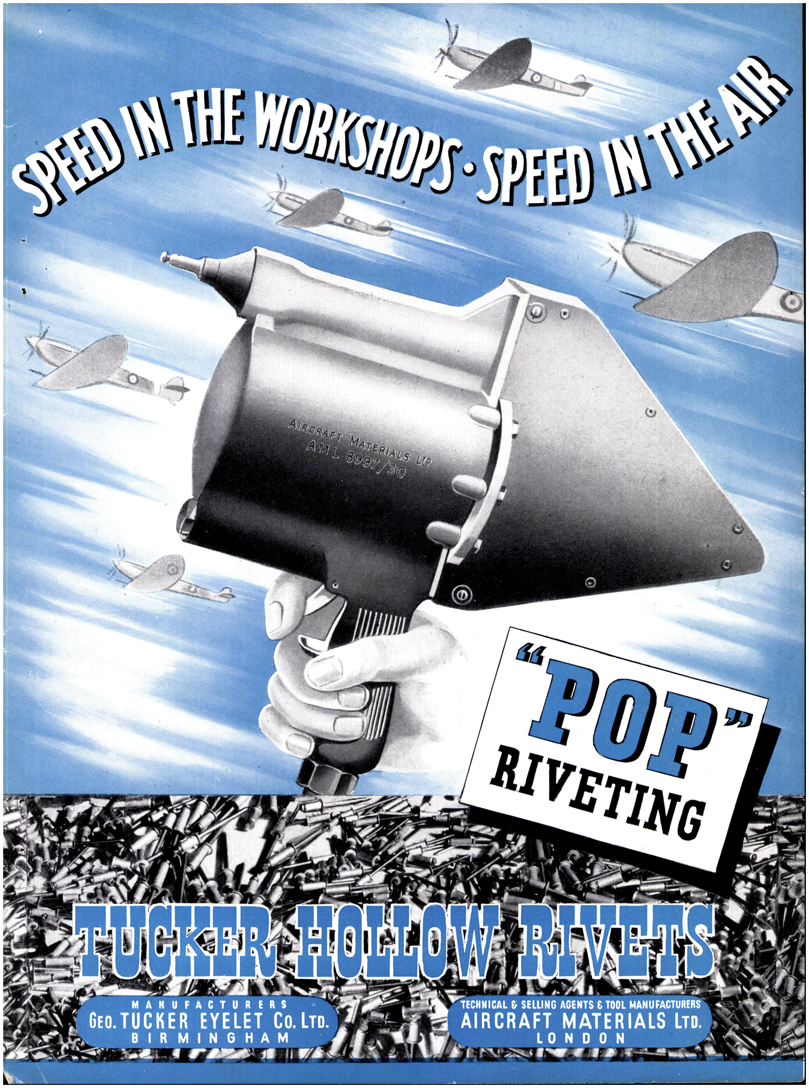 "Speed in the Workshops - Speed in the Air" advert from Aircraft Production March 1944, advertising pop rivets